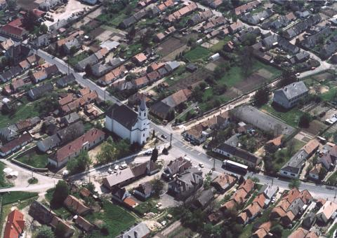 Monostorapáti, Hungary, aerialphotography